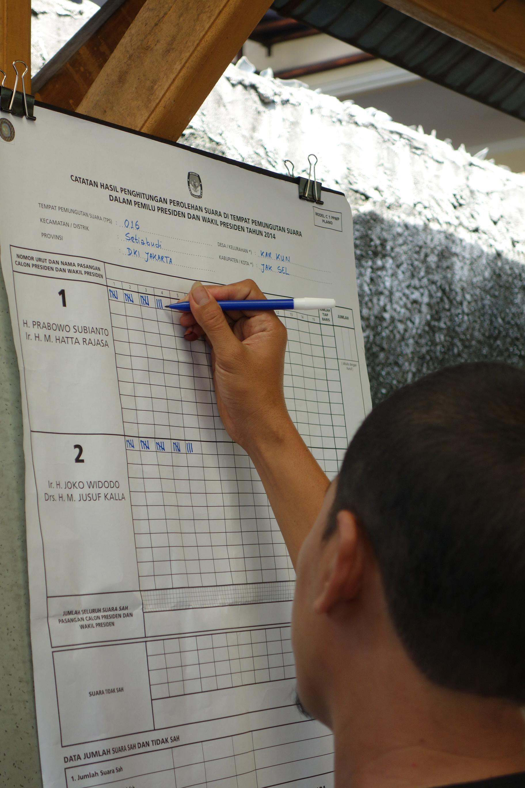 An official making notes while counting votes at a polling station in Jakarta on July 9, 2014